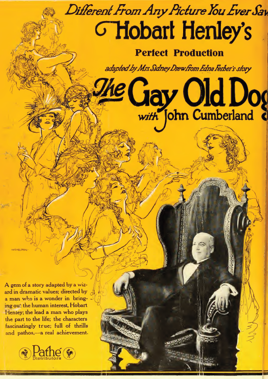 Ad with John Cumberland in The Gay Old Dog (1919), directed by Hobert Henley. The lists the film as A Gay Old Dog. Based on a story by Edna Ferber.